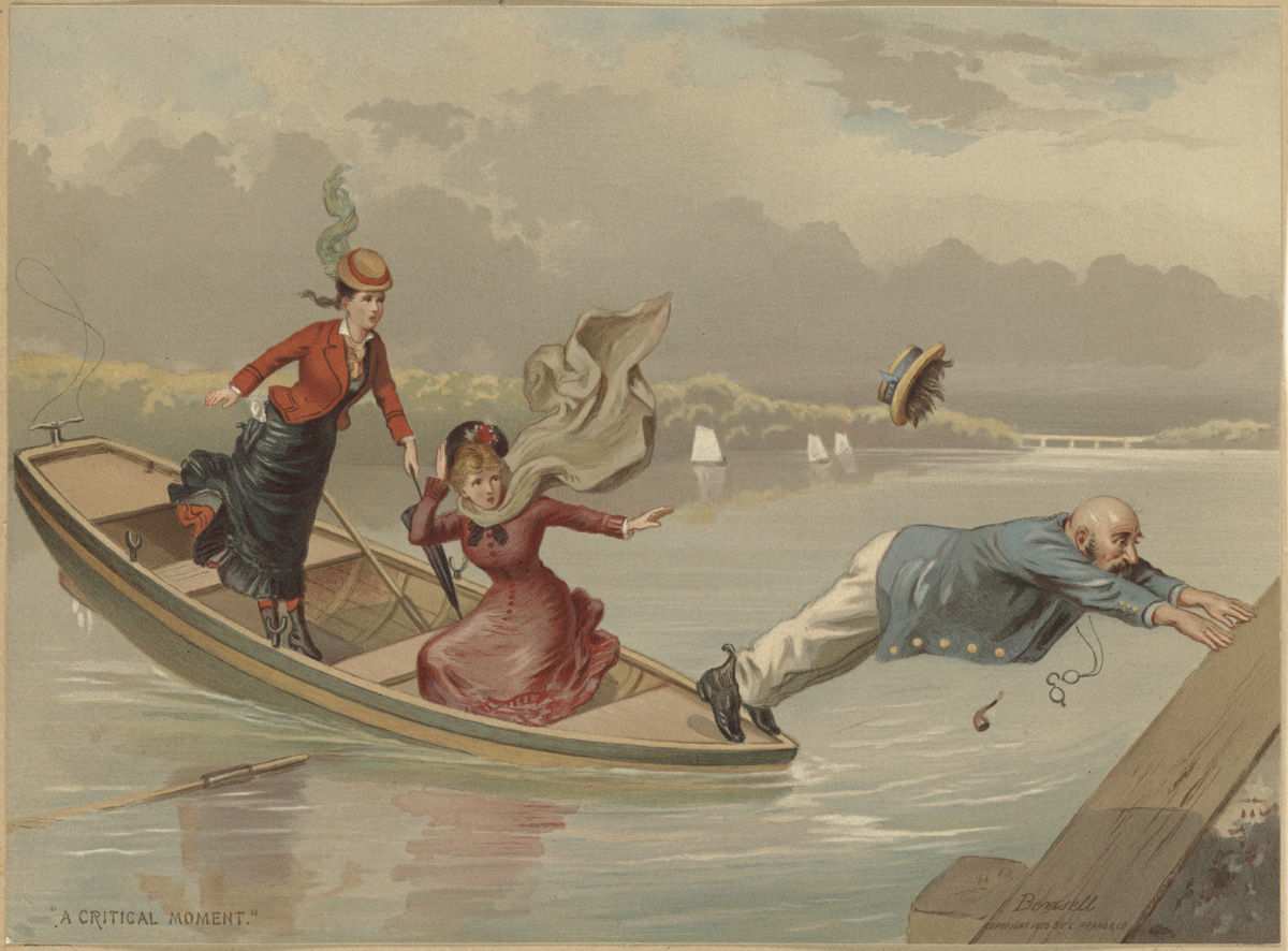 File name: 07_11_001186 Title: Boating scene, "A Critical Moment" Creator/Contributor: Bensell, Edmund Birckhead, b. 1842 (artist); L. Prang & Co. (publisher) Date issued: Copyright date: 1878 Physical description note: Genre: Chromolithographs; Genre prints; Group portraits Location: Boston Public Library, Print Department Rights: No known restrictions Flickr data on 2011-08-06: Camera: Sinar AG Sinarback 54 FW, Sinar m License: CC BY 2.0 User: Boston Public Library BPL